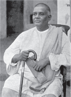 Swami Saradananda, a direct disciple of 19th century mystic Ramakrishna Paramahamsa